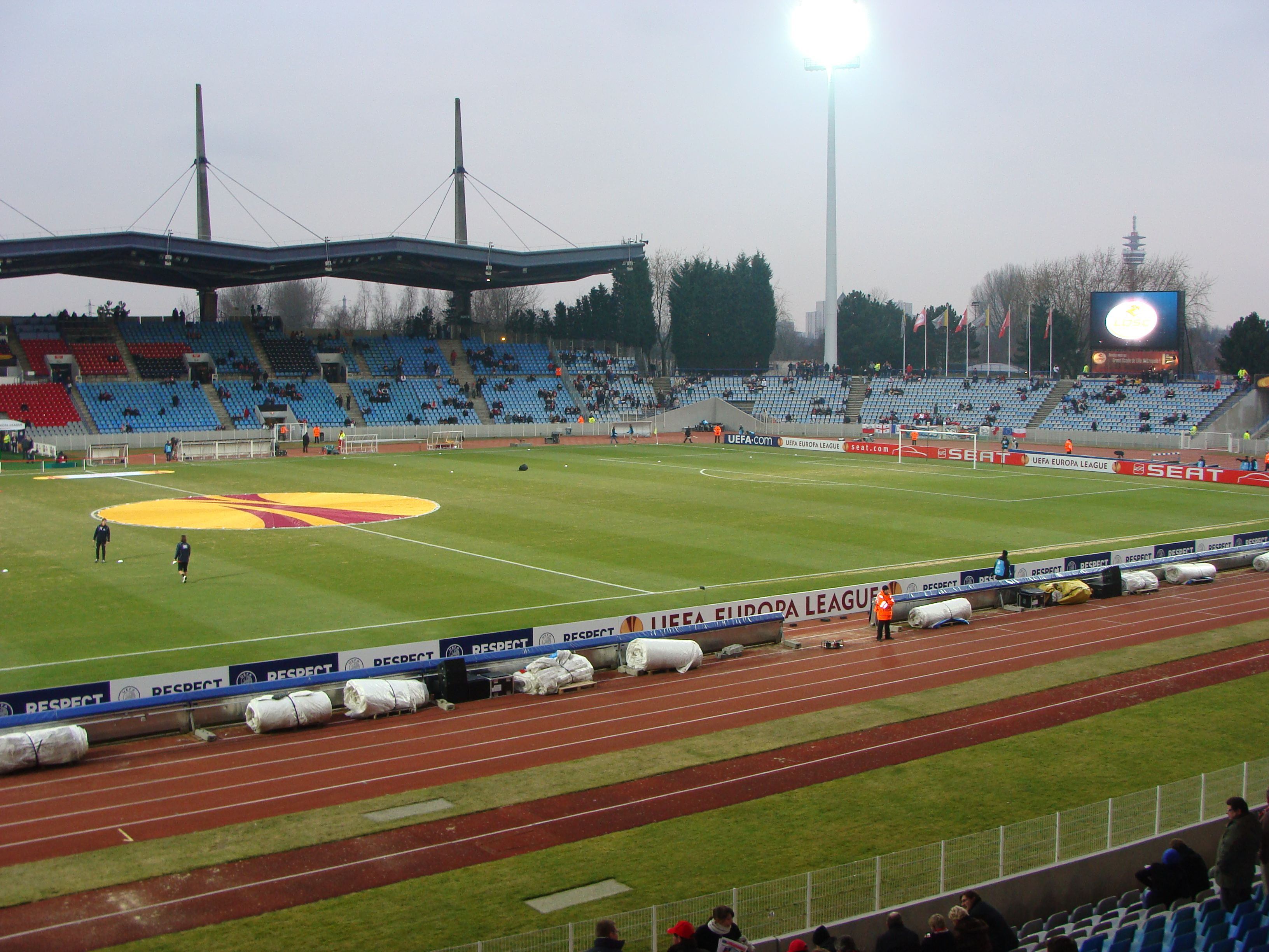 Stadium Nord Lille Métropole (Europa League) Lille / Liverpool